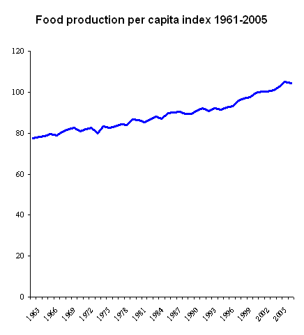 The y axis is percent of 1999-2001 average food production per capita Data source: World Resources Institute. 2006. Available at Washington DC: World Resources Institute. Meny "Agriculture and Food", submeny "Searchable Database". "Food and Agriculture Organization of the United Nations (FAO). 2006. FAOSTAT Online Statistical Service. Rome: FAO. Available online at